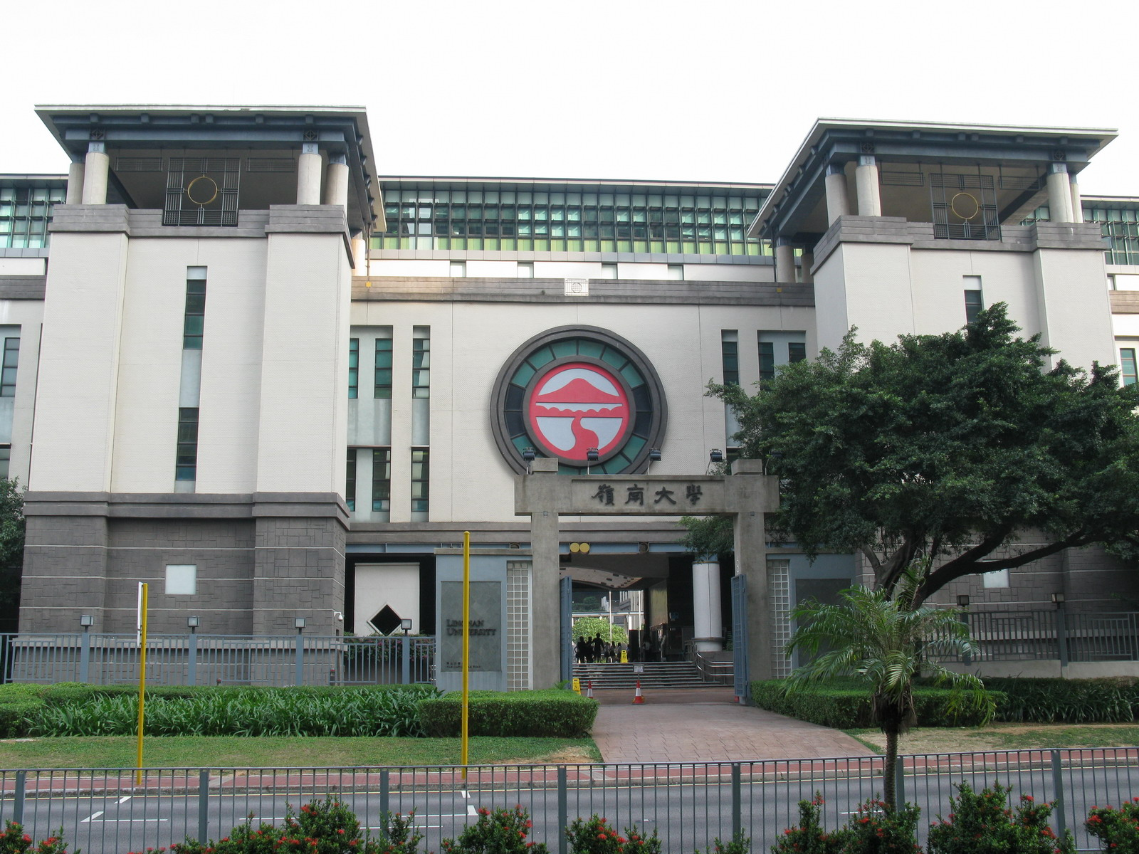 香港 屯門 嶺南大學 Lingnan University, Tuen Mun, Hong Kong